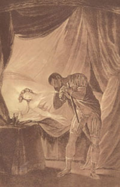 Desdemona in bed asleep, from Othello (Act V, scene 2), part of "A Collection of Prints, from Pictures Painted for the Purpose of Illustrating the Dramatic Works of Shakspeare, by the Artists of Great-Britain", published by John and Josiah Boydell (1803)